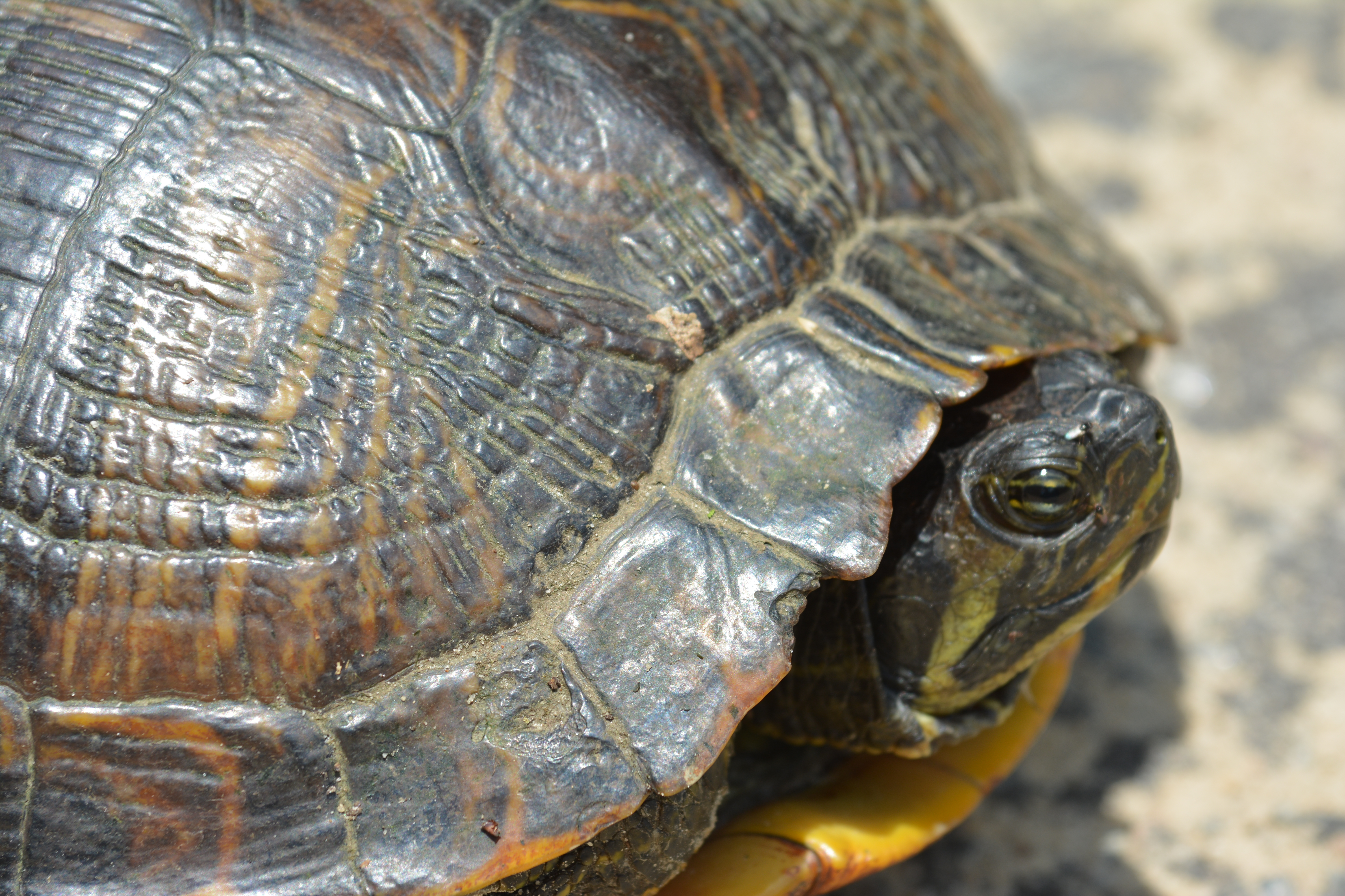 Yellow-bellied slider, Trachemys scripta scripta